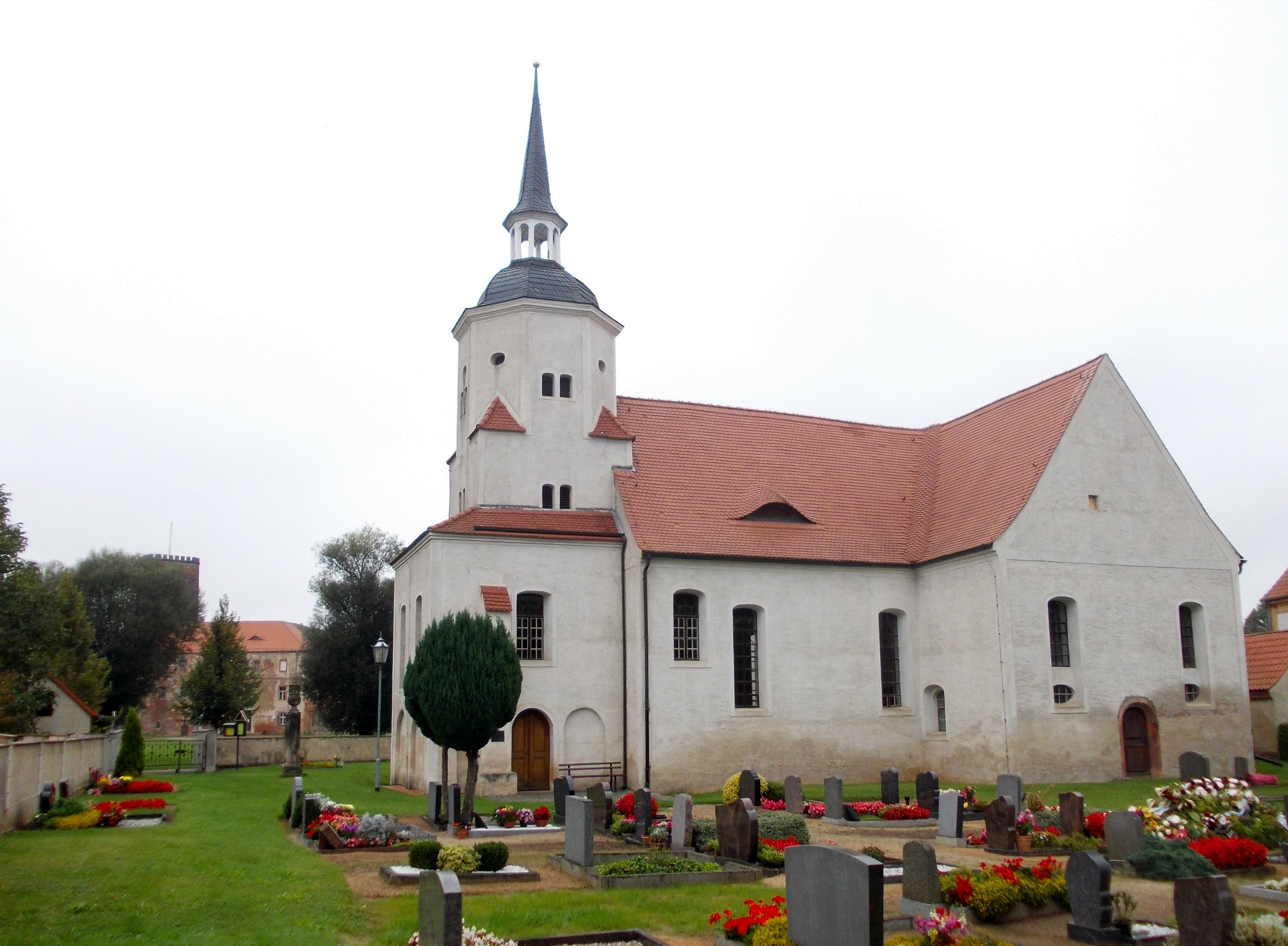 Schnaditz church (Bad Düben, Nordsachsen district, Saxony)